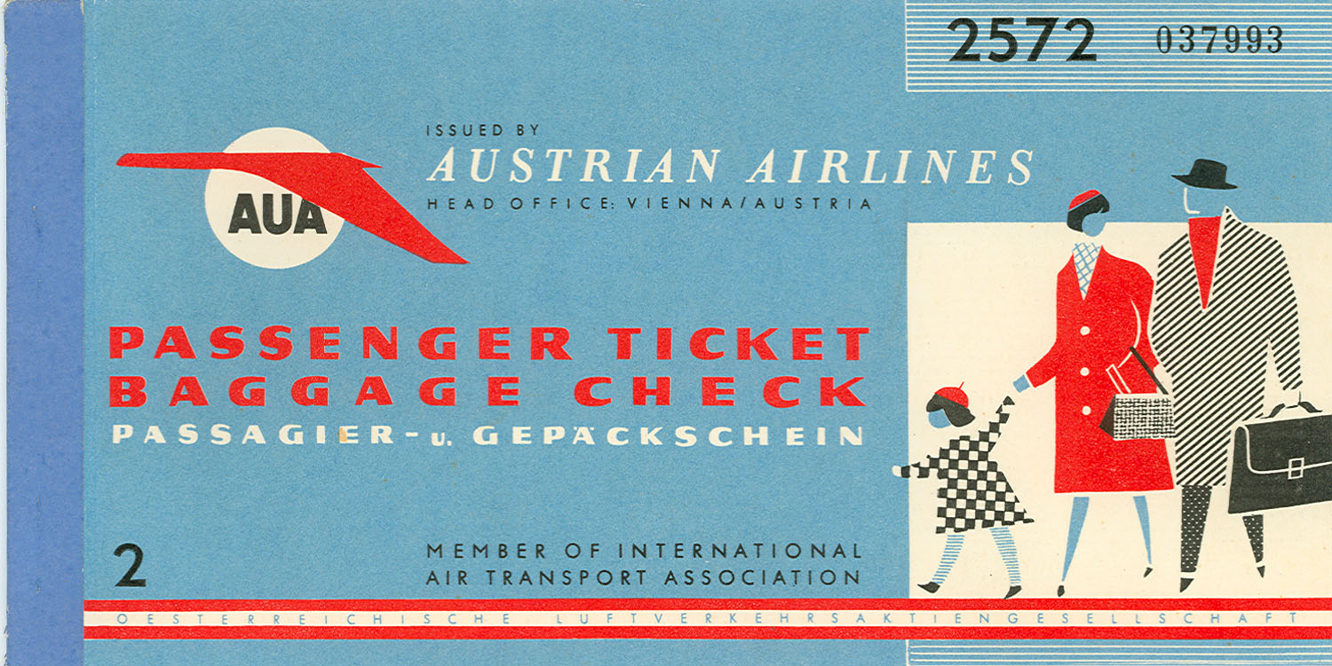 Vintage Austrian Airlines air ticket cover